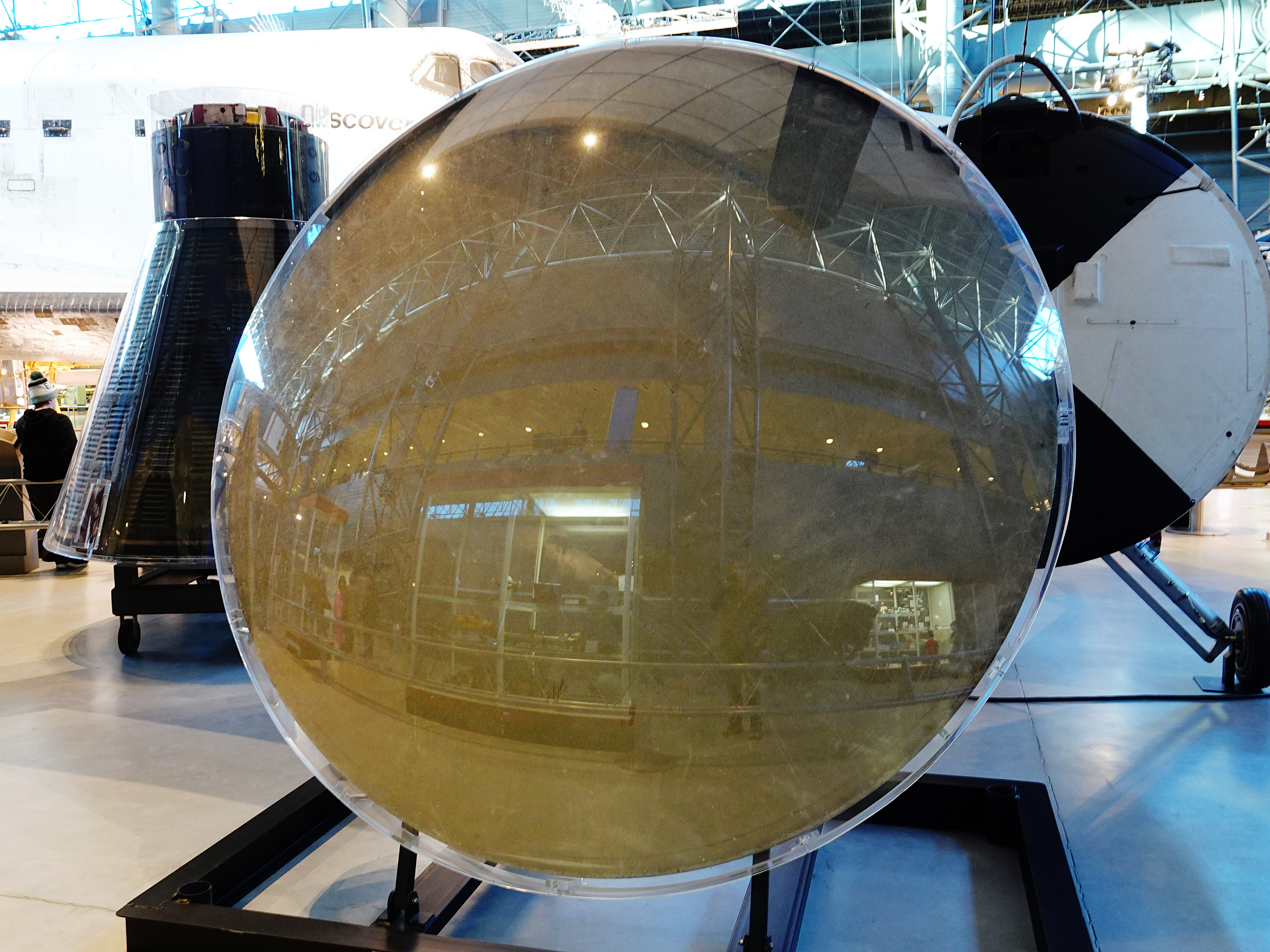 A heat shield protected the two-astronaut Gemini spacecraft against the enormous heat of reentry into the atmosphere, which began at a velocity of more than 27,500 kms (17,000 miles) per hour. Like those of other early human spacecraft, Gemini's heat shield derived from ballistic missile warhead technology. The dish-shaped shield created a shock wave in the atmosphere that held off most of the heat. The rest dissipated by ablation -- charring and evaporation of the shield's surface. Ablative heat shields are not reusable. Picture taken at the National Air and Space Museum's Steven F. Udvar-Hazy Center in Chantilly, Virginia, USA.